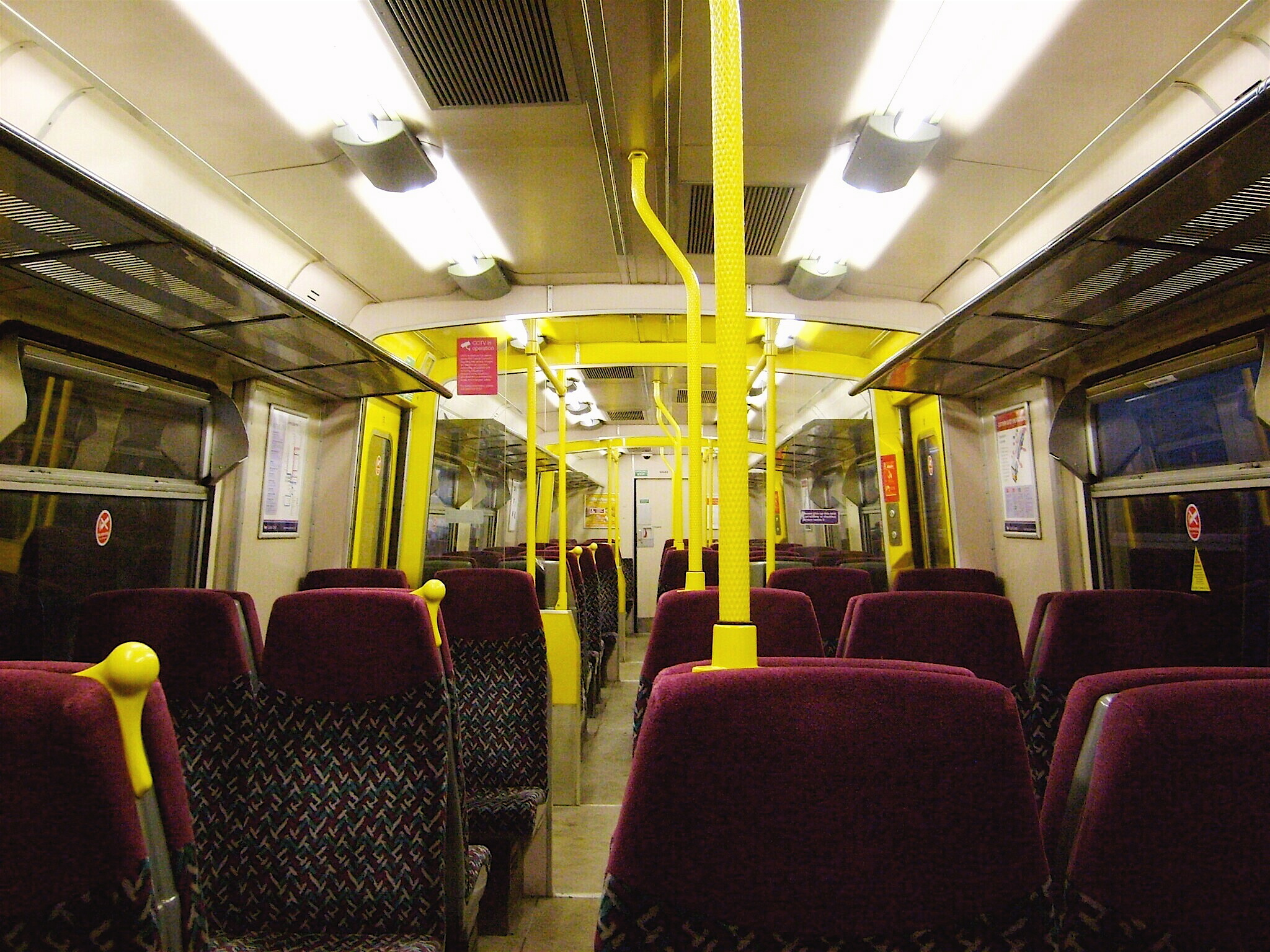 The interior of a refurbished WAGN Railway Class 313 EMU, featuring new high backed seating and yellow ribbled sanchlions.